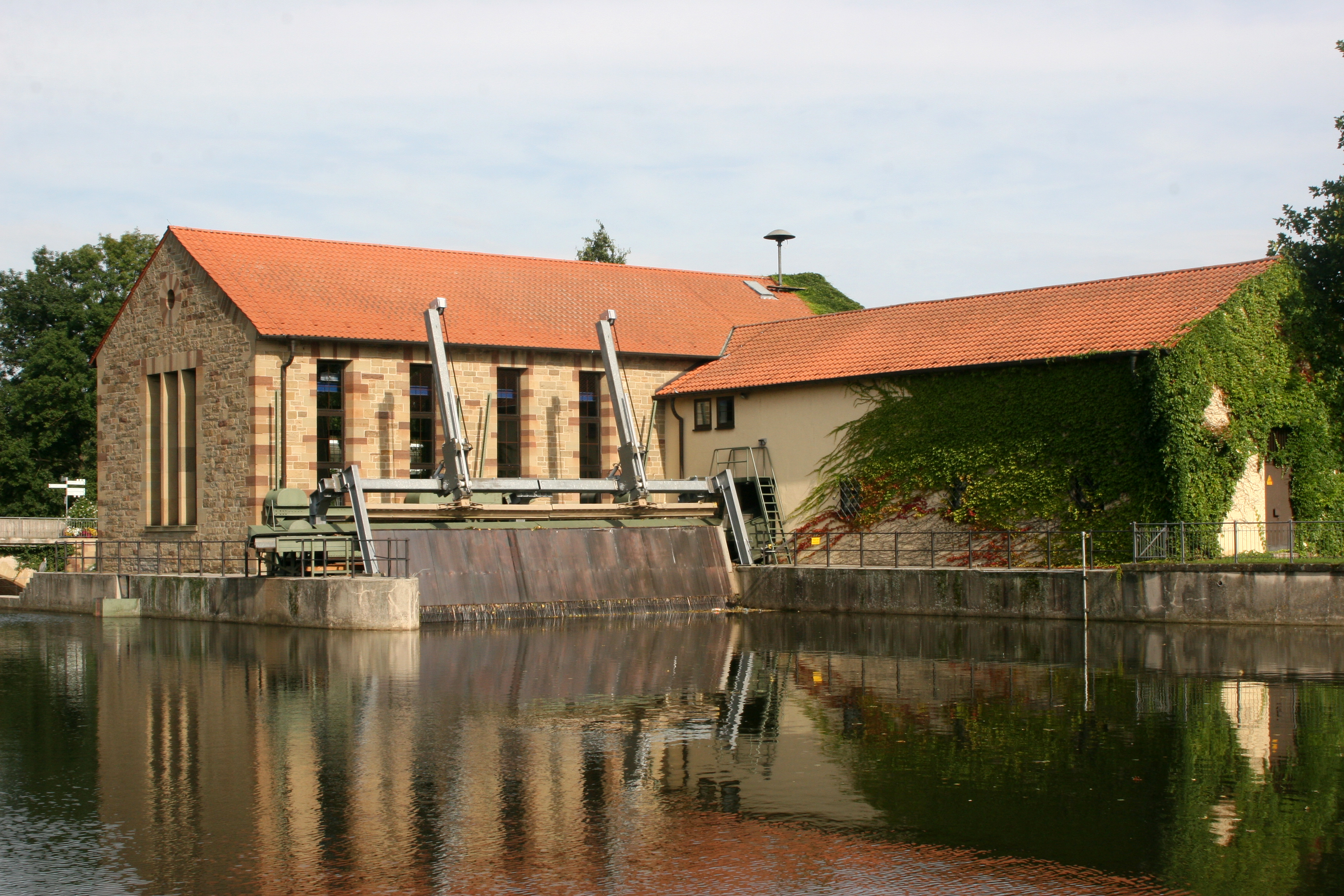 Hydroelectric power plant ("Enzkraftwerk") in Bietigheim